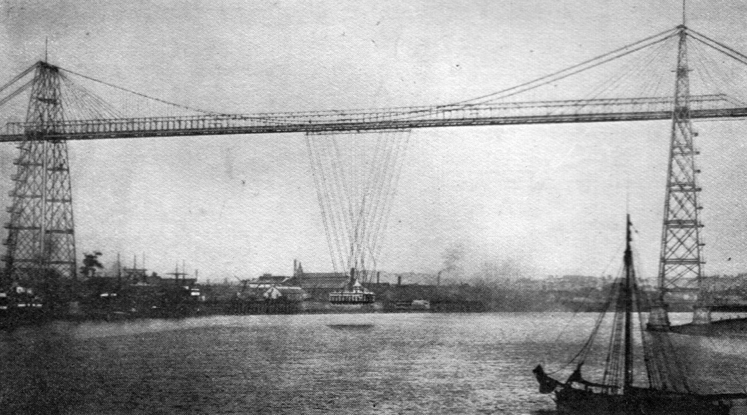 Transporter Bridge, Newport (Monmouth) Crosses the River Usk and has a clear span between the towers of 592 feet and a height above high water level of 180 feet. Photo: Valentine & Sons, Ltd. Newport transporter bridge